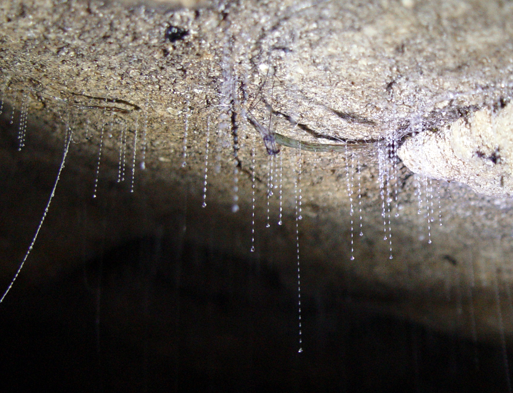 Two larvae of Arachnocampa luminosa with snares